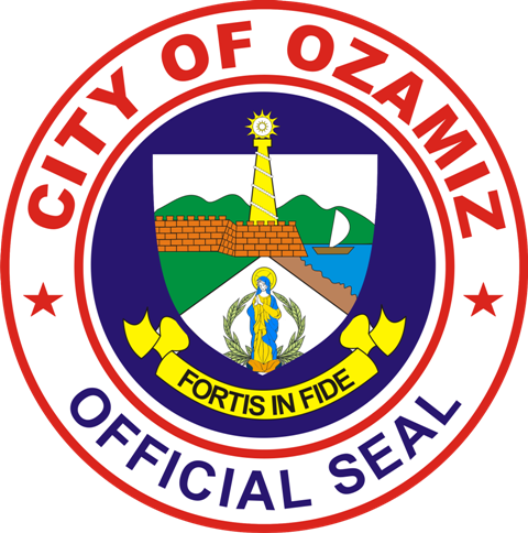 Ozamiz City